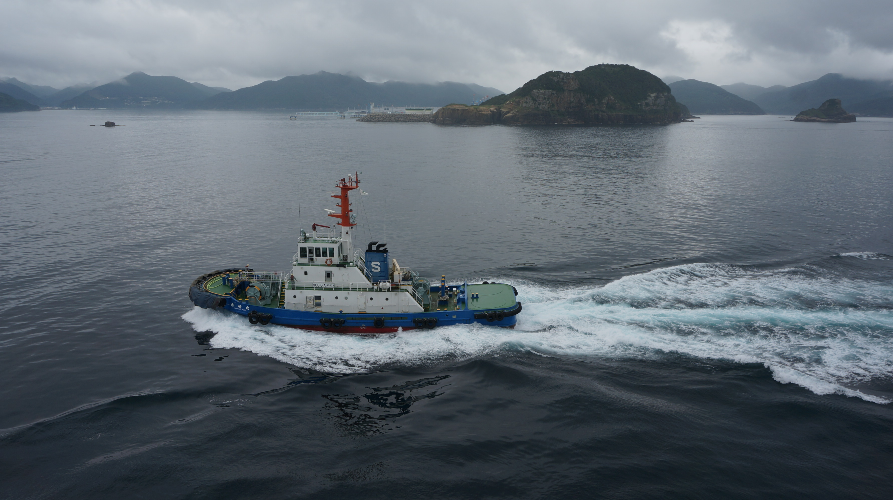 Tugboat Akasaki-maru at Port of Aokata, Nagasaki.